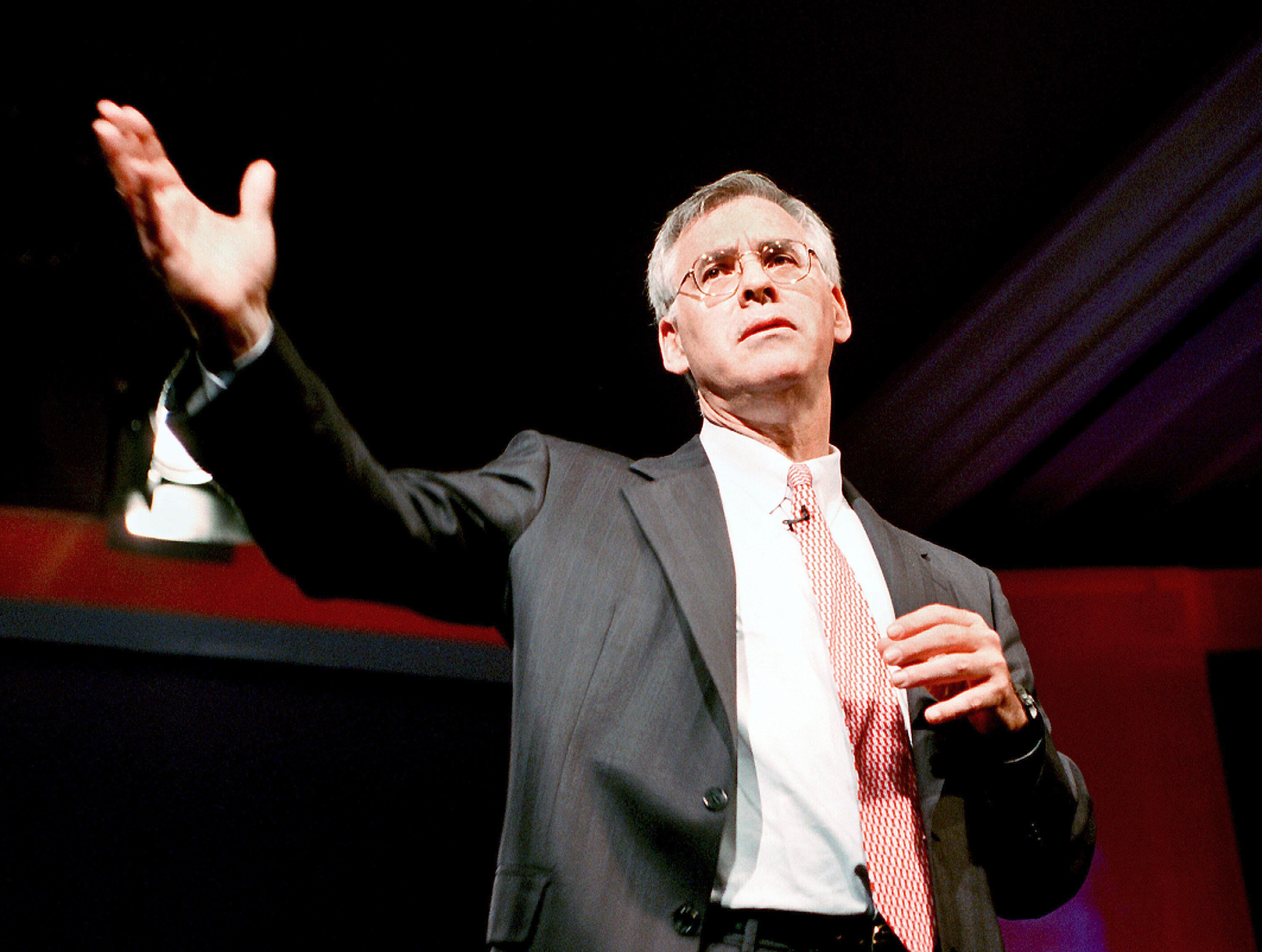 Richard Danzig, Secretary of the Navy, gives his keynote speech at the Red Herring annual innovation conference, in Carlsbad, California.